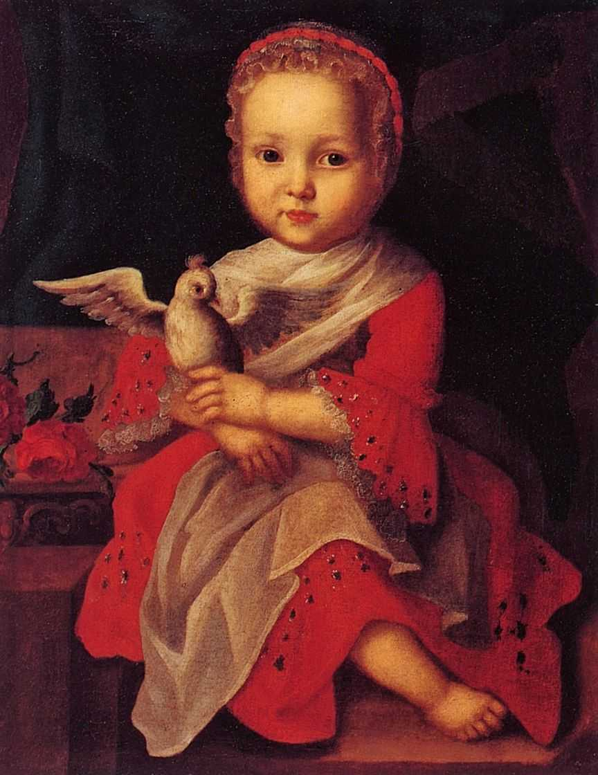 Portrait of Girl with bird